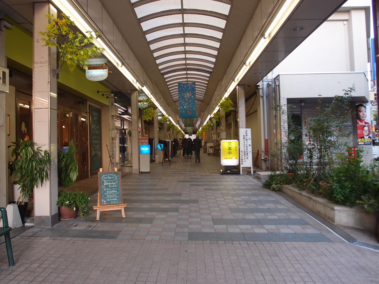 Plaza Shūgakuin is a commercial street near Shūgakuin Station of Eizan Electric Railway in Kyoto, Japan.